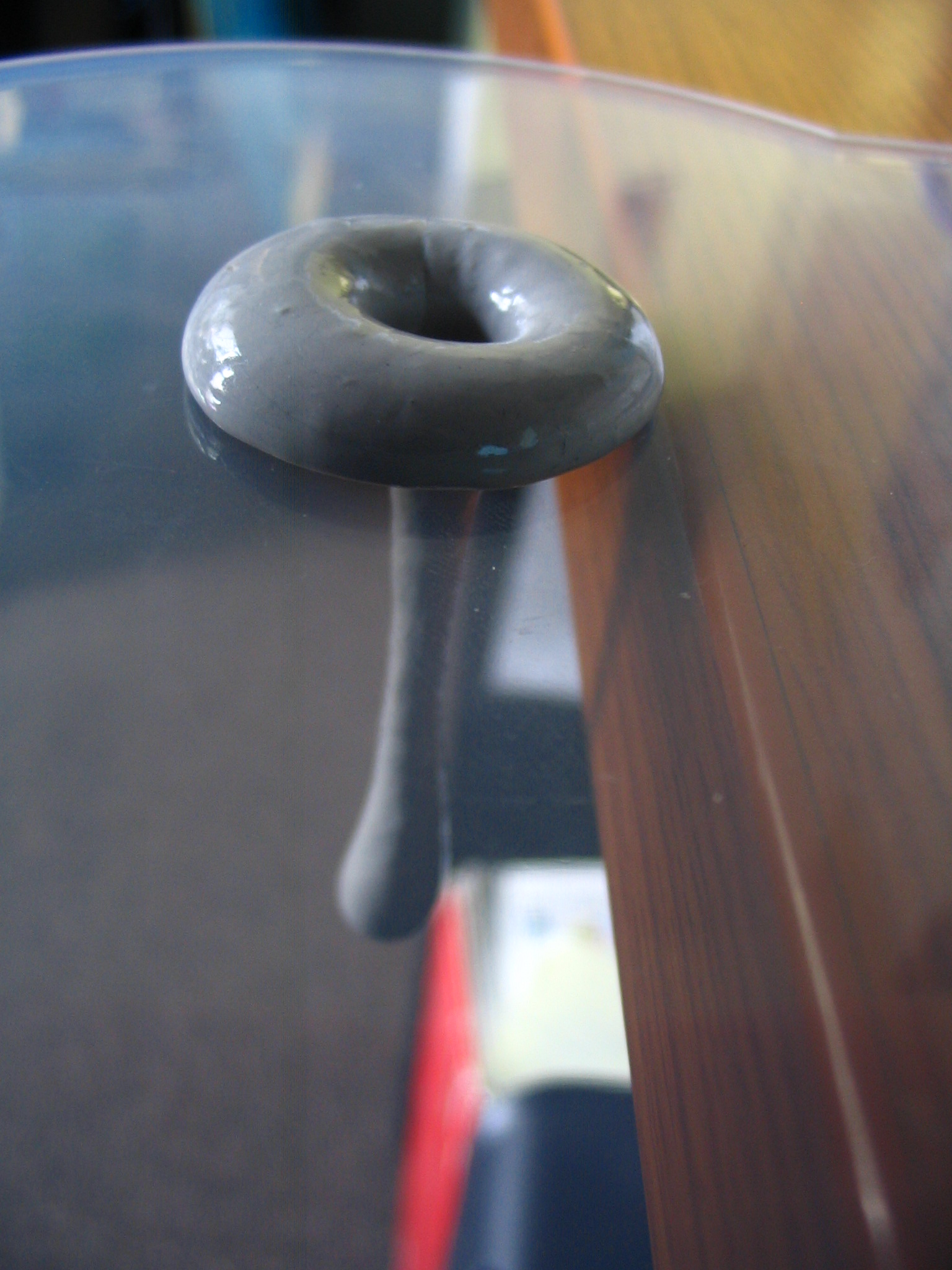 silly putty, science, interesting